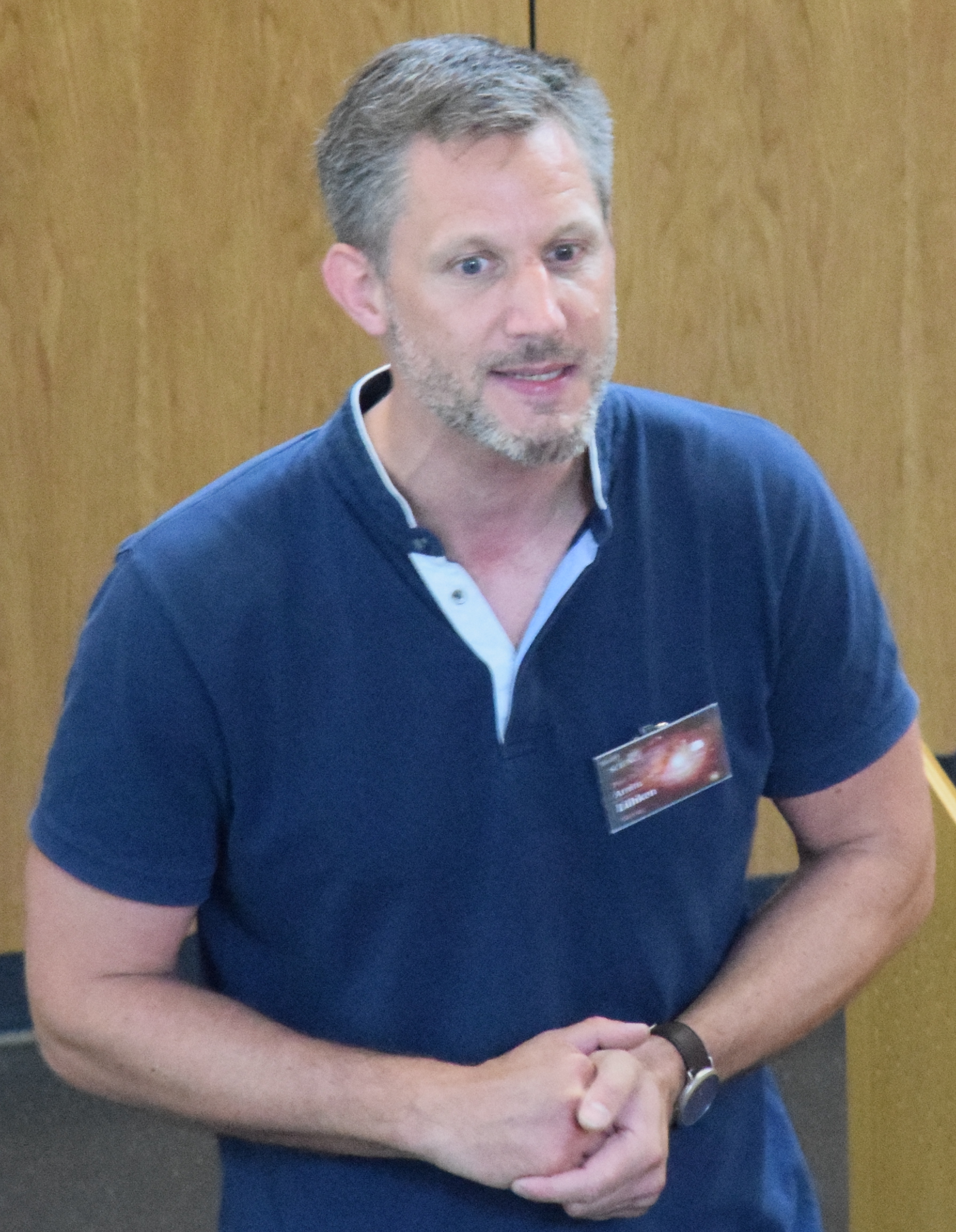 Arnim Lühken at Night of Science 2018.